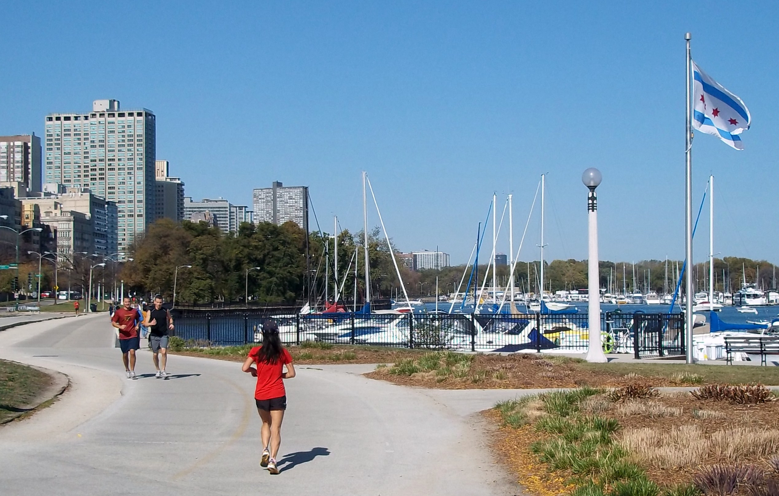 Chicago Lake front bike trail